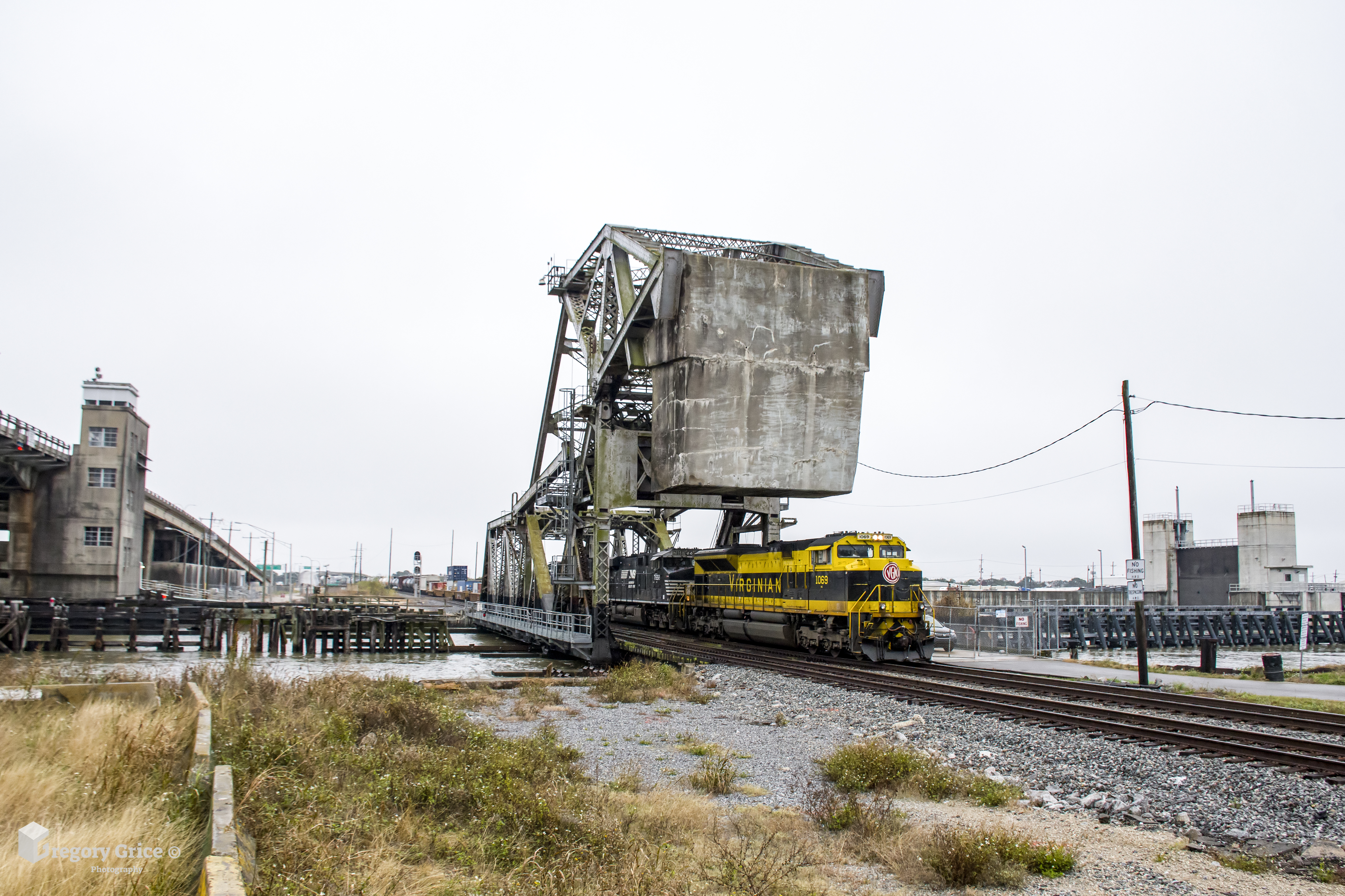 Norfolk Southern's Virginian Heritage SD70ACe leads Alabama Division train 355 south over the Seabrook Railroad Bridge in New Orleans while on it's way to Oliver Yard. The Seabrook Railroad Bridge is a Strauss Heel-Trunnion Bascule Bridge built in 1923 and carries Norfolk Southern's N.O. & N.E. District over the Inner Harbor Navigation Canal in New Orleans.